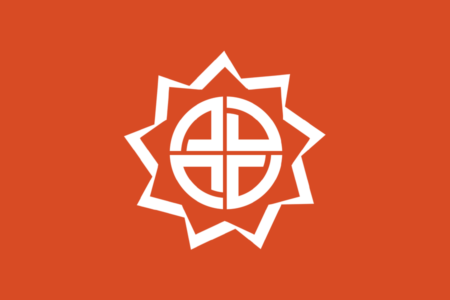 Flag of Fukushima, Fukushima